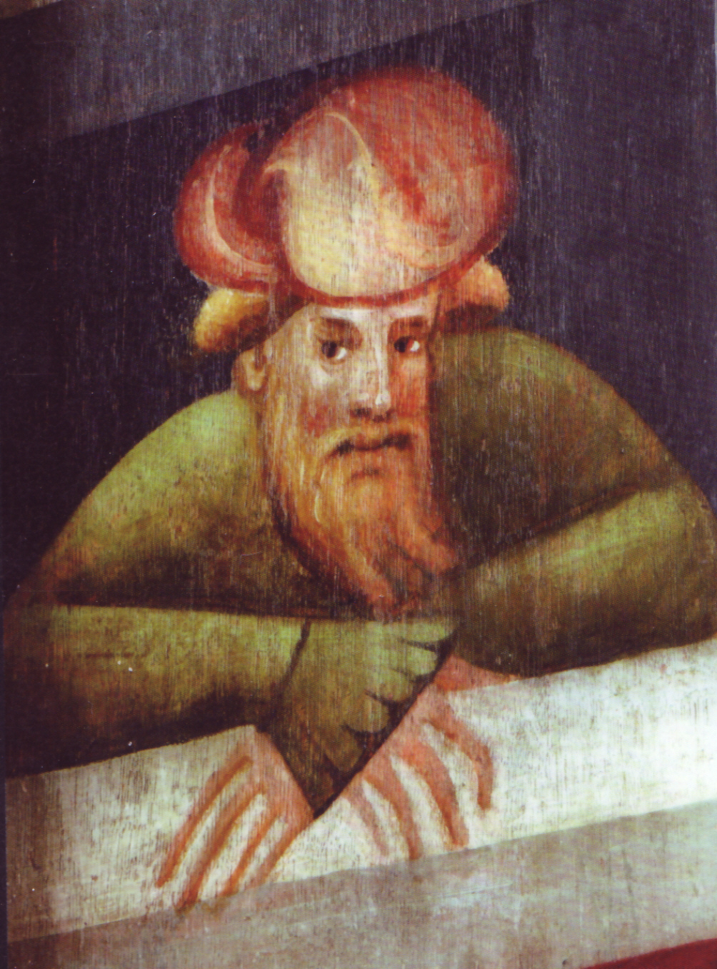 Nicolaus Lillienfeld, German clockmaker of the 14th and 15th century. Painting on his clock in St. Nicholas' Church, Stralsund.